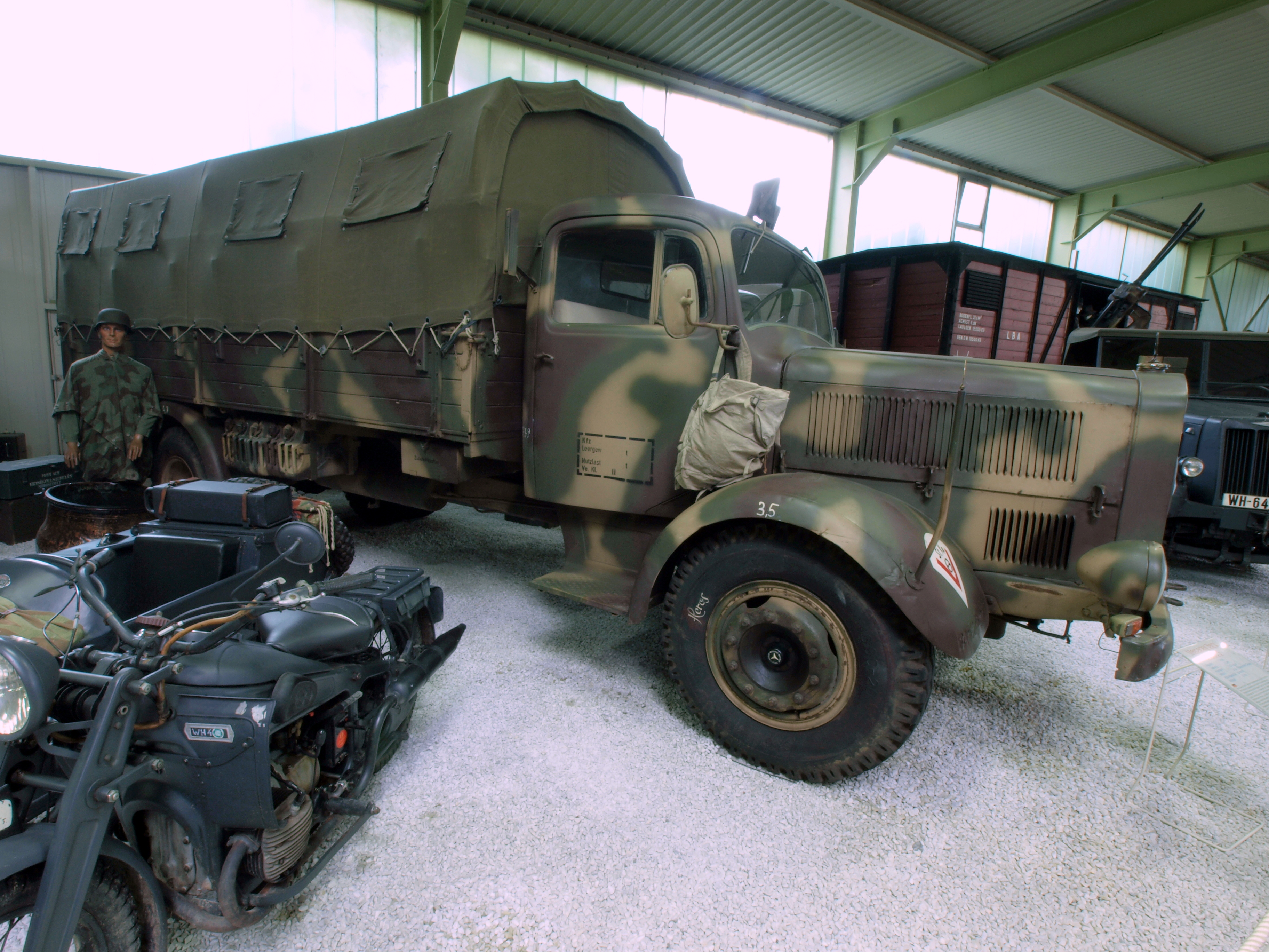 Photographed at the Auto & Technic museum Sinsheim.